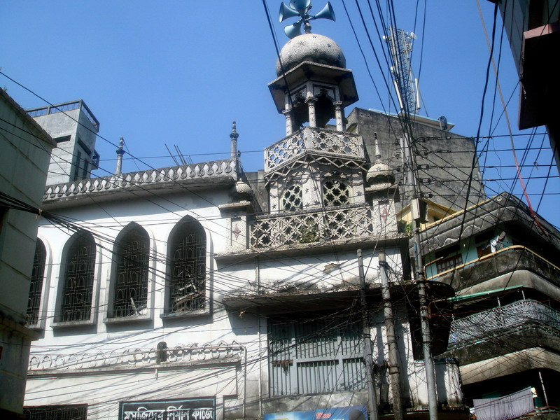 Churihatta Mosque of Old Dhaka.